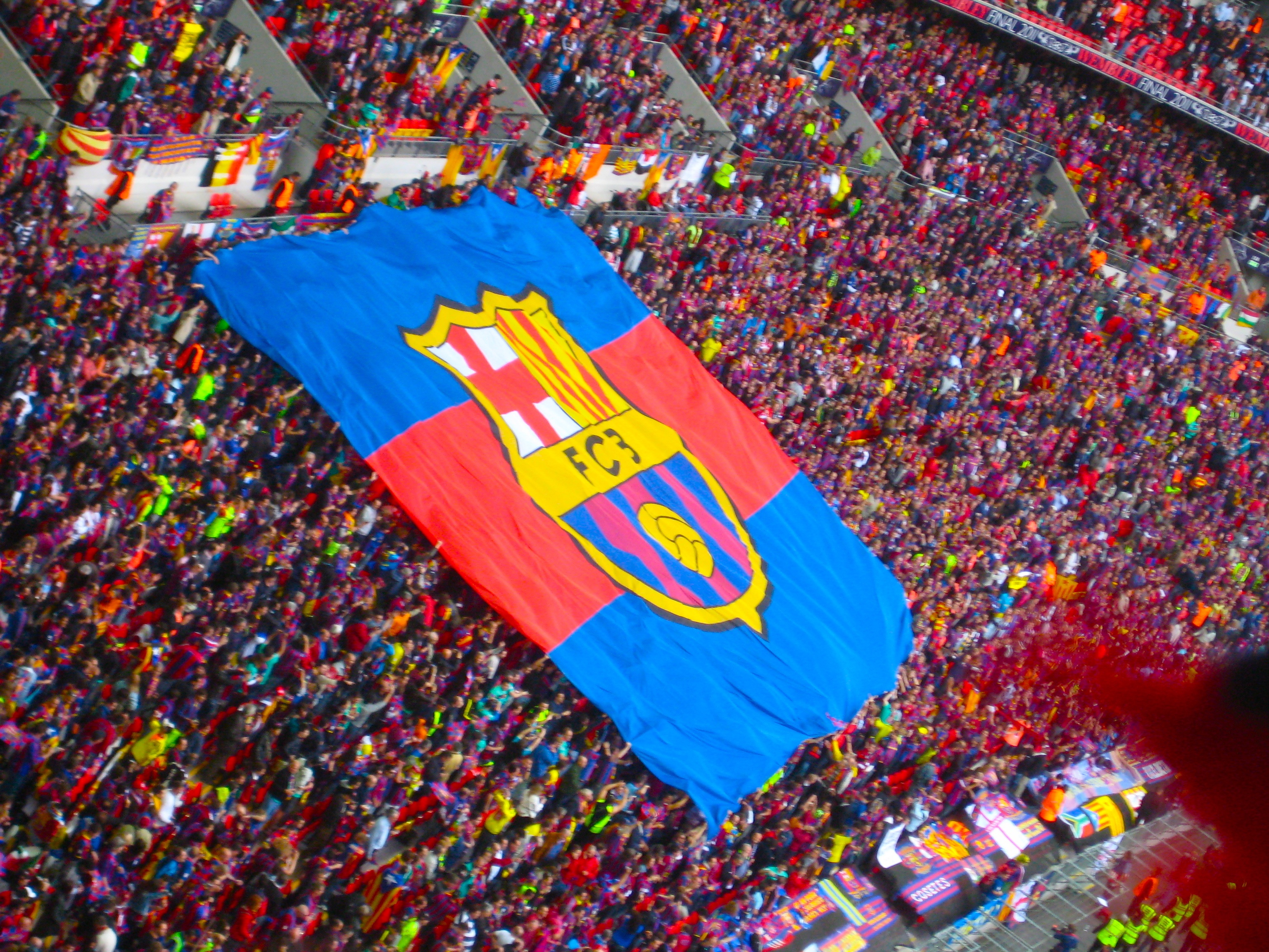 A huge FCB Flag in UEFA Champions League Final 2011.